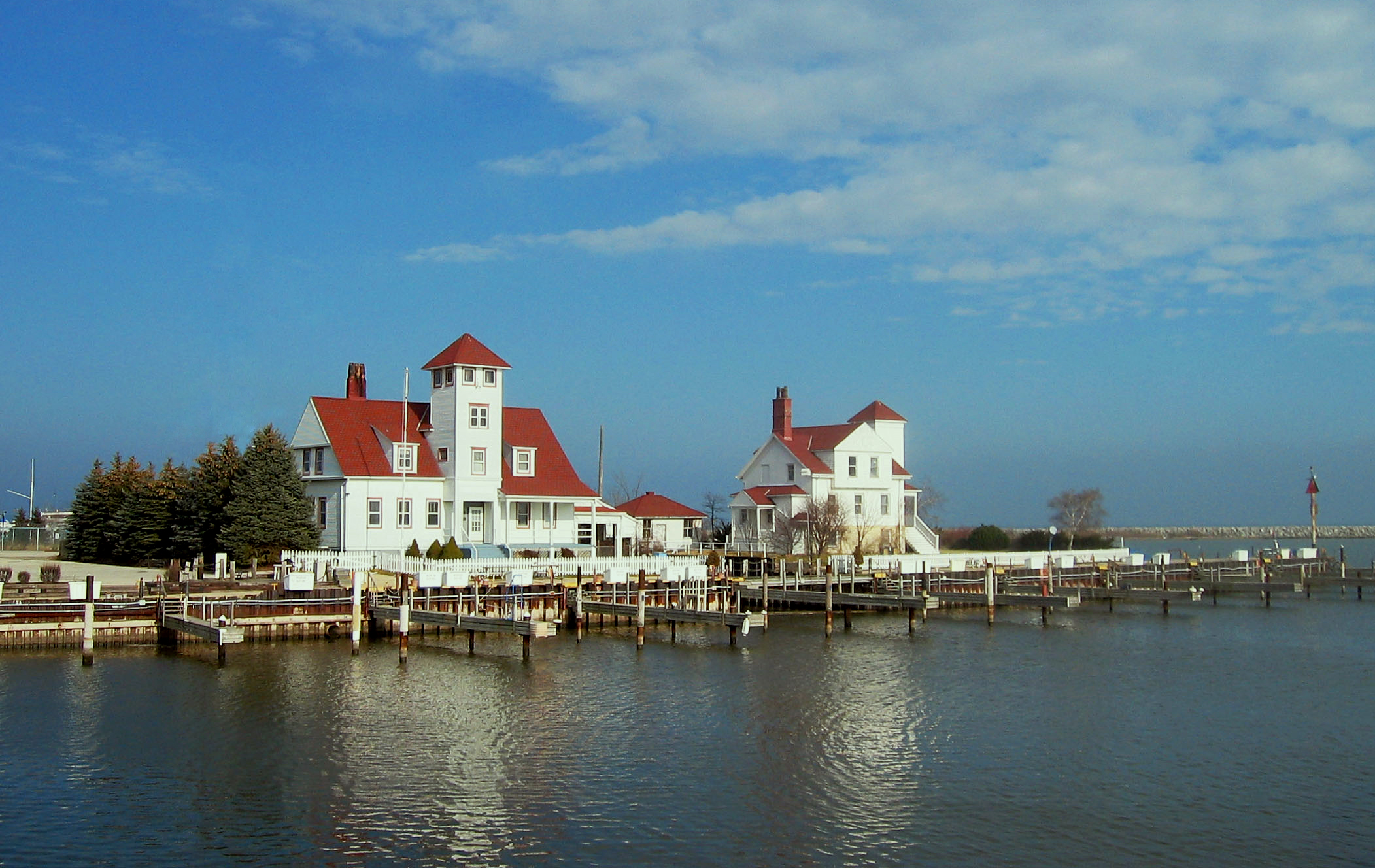 1865 Racine Harbor lighthouse and life saving station at the mouth of the Root River, Racine, Wisconsin